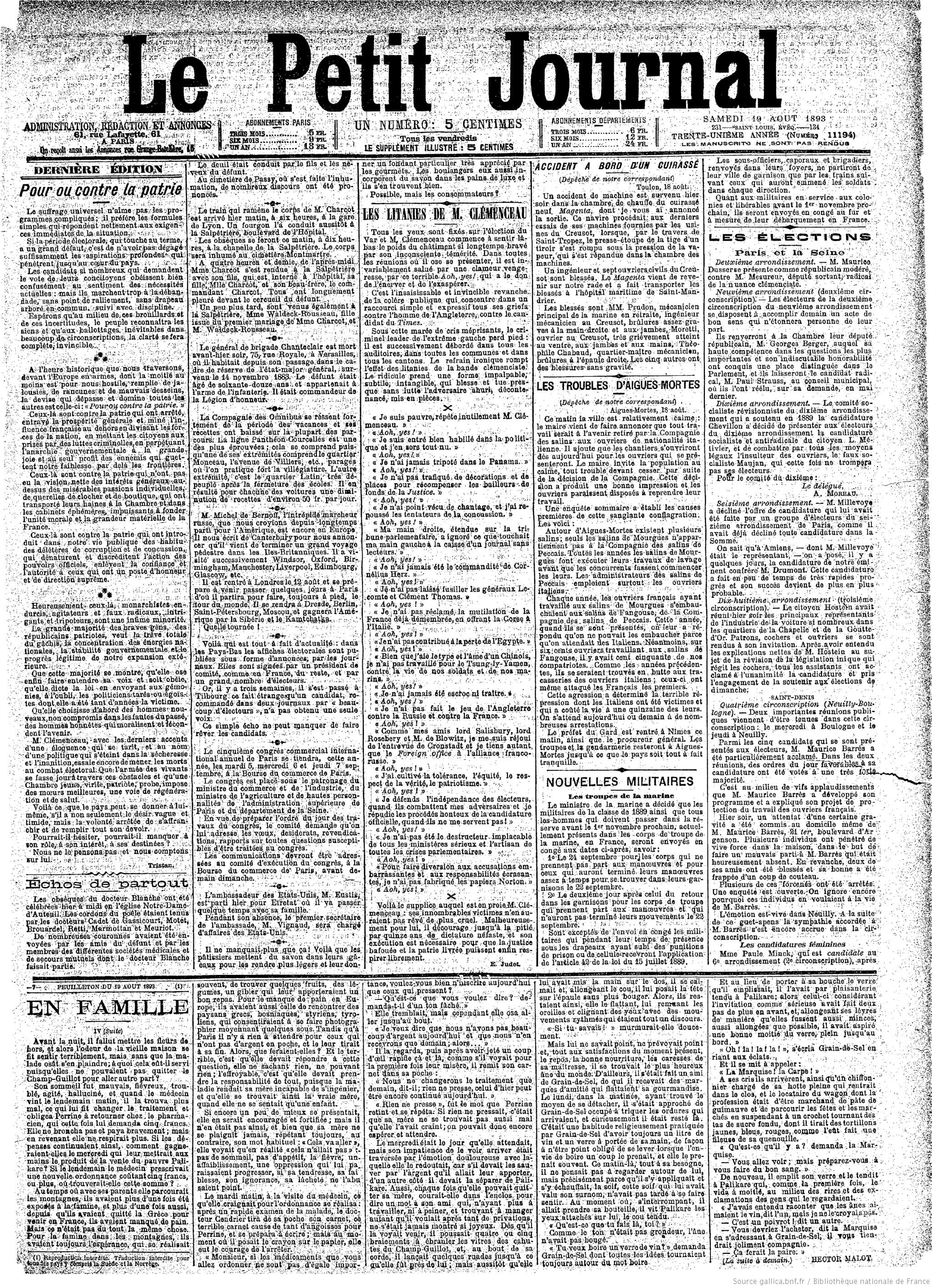 Newspaper front of the Petit Journal on 19 August 1893, with an article, "La litanie de Clemenceau", a fierce attack on Clemenceau by Emile Judet, which claims he was involved in various scandals (Panama, etc.) and that he is an "agent of the United Kingdom".